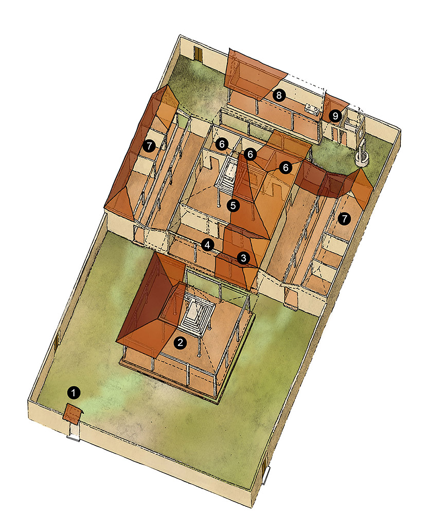 Javanese house compound 1. lawang pintu 2. pendapa 3. peringgitan 4. emperan 5. dalem 6. senthong 7. gandok 8. dapur (kitchen) 9. kamar mandi (bathroom)